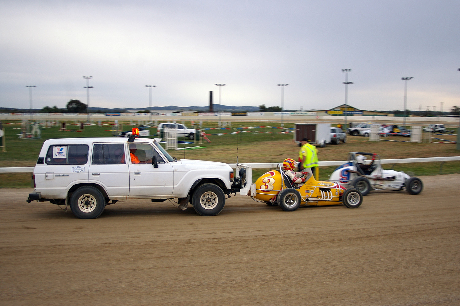 The Honker II, which is a midget racing car (Formerly owned by Bob Tattersall who won the USAC Nationals Midget Championship in 1969) which is powered by an Offy (Offenhauser) engine, getting a push start by a Toyota Landcruiser at the 144th Wagga Wagga Show.